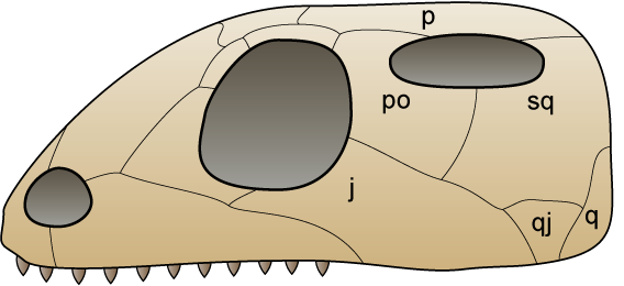 Skull of Euryapsida